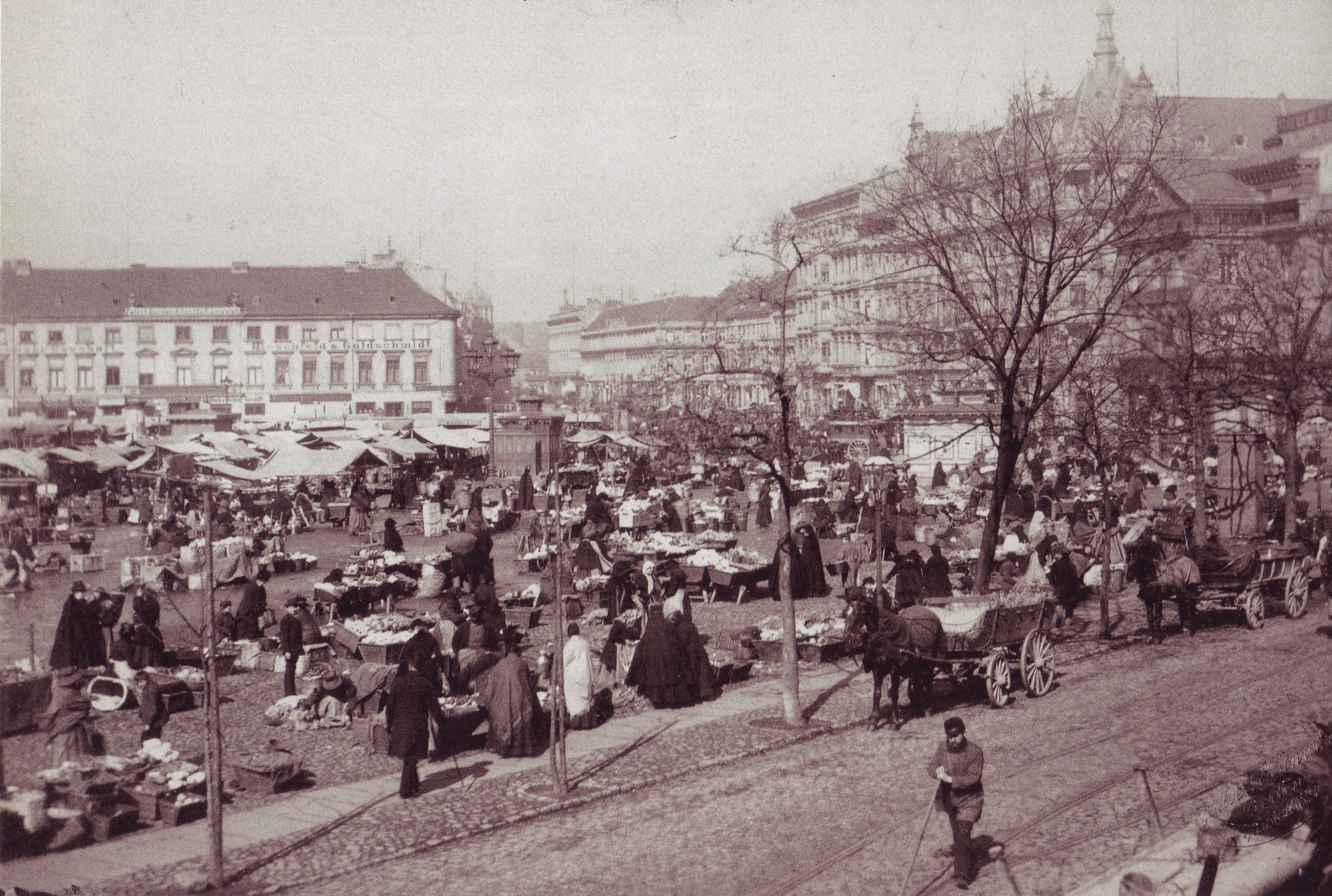 Market on Alexanderplatz, Berlin, Germany in 1889